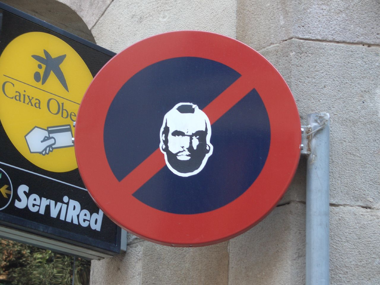 Sticker of Mr. T on a road sign in BarcelonaMr. T